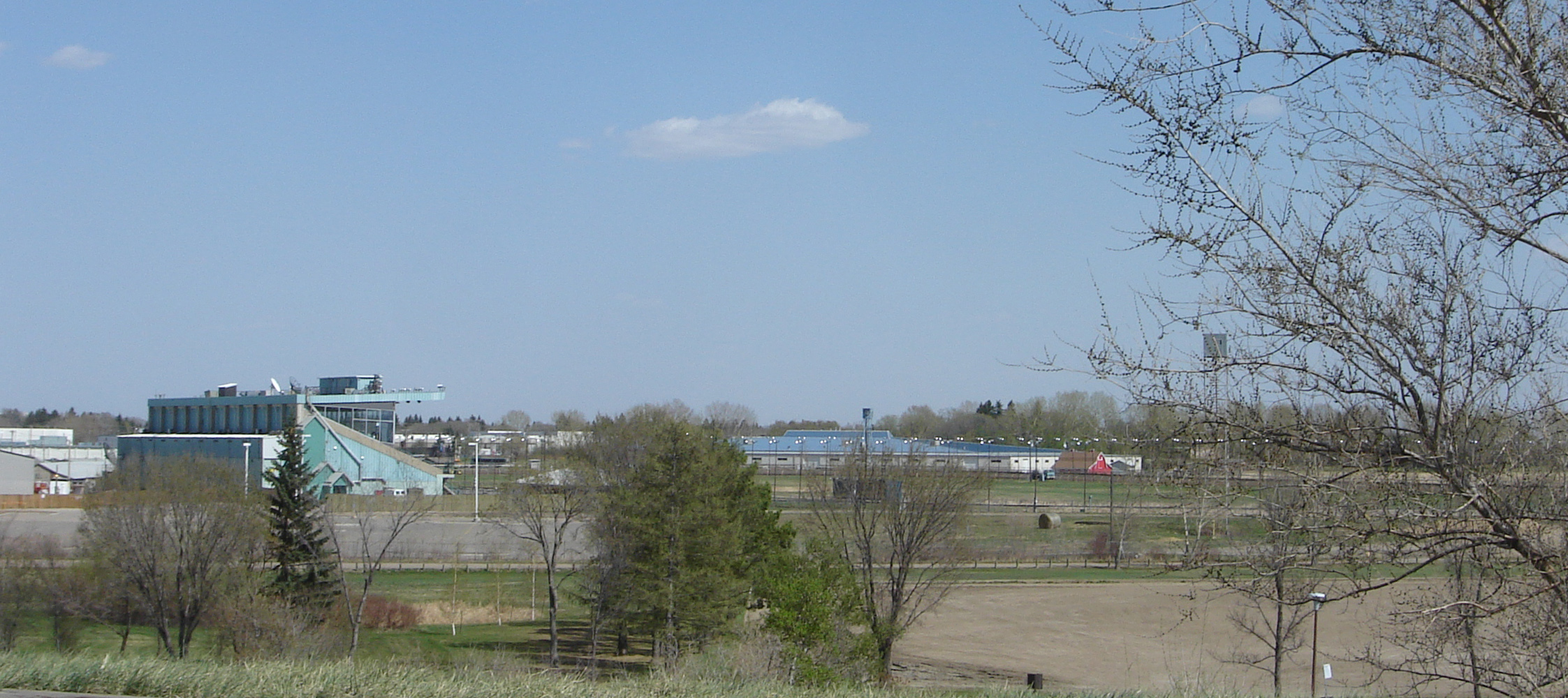 Prairieland Park, Marquis Downs Horse race track photo taken from Diefenbaker Hill Diefenbaker Management Area southwest of Exhibition, Saskatoon subdivision Saskatoon, Saskatchewan, Canada